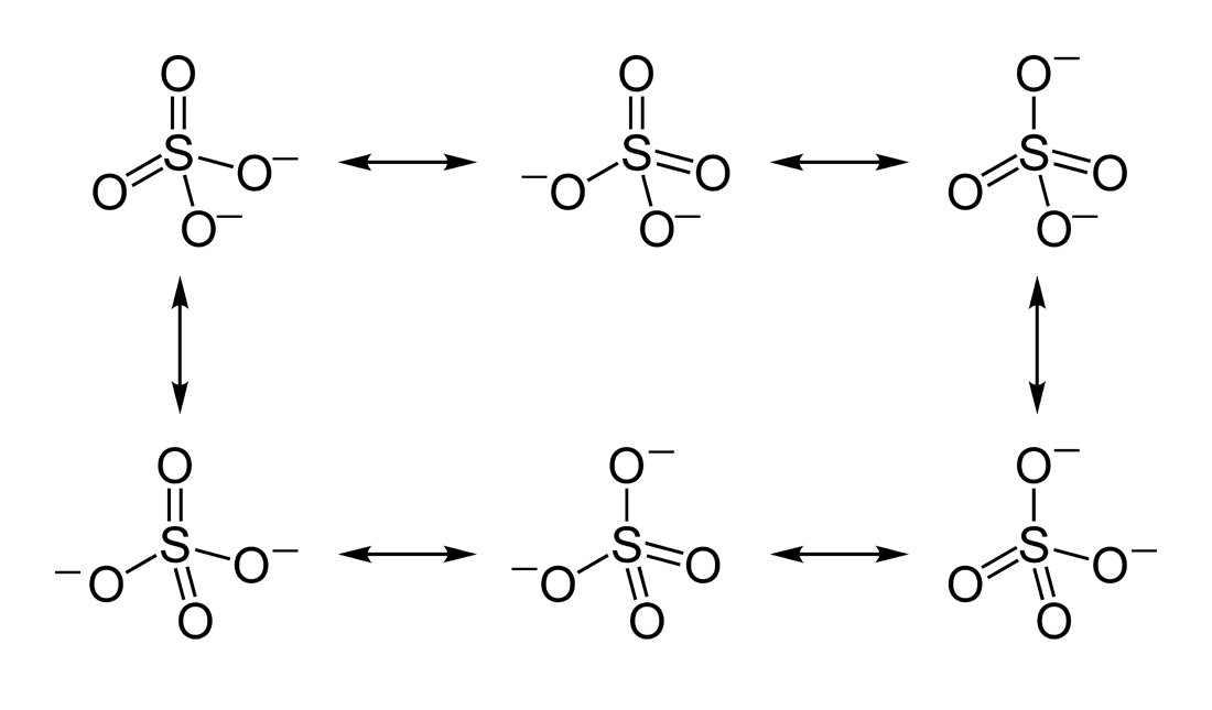 The six main resonance structures of the sulfate ion, SO42−.